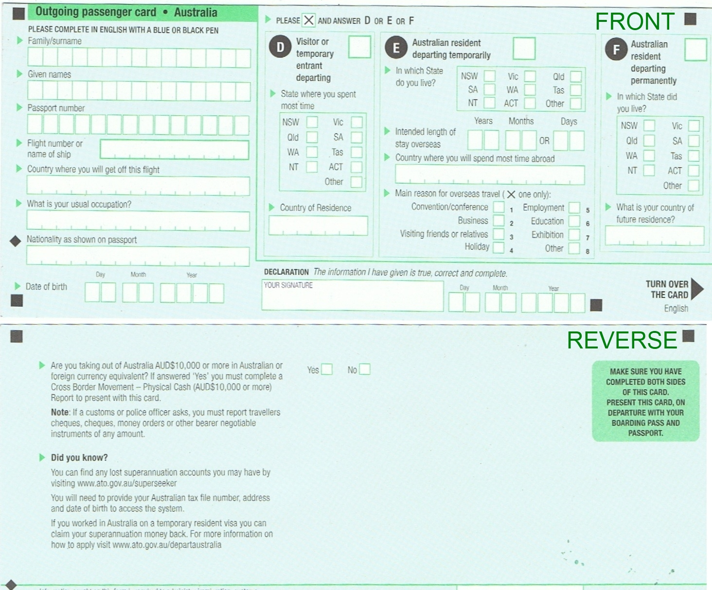 Outgoing Passenger Card Australia- the two sided card to be filled in prior or during departing Australia.